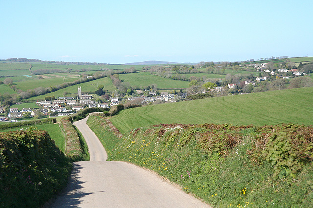 Landkey: towards Goodleigh The lane to Goodleigh looking north